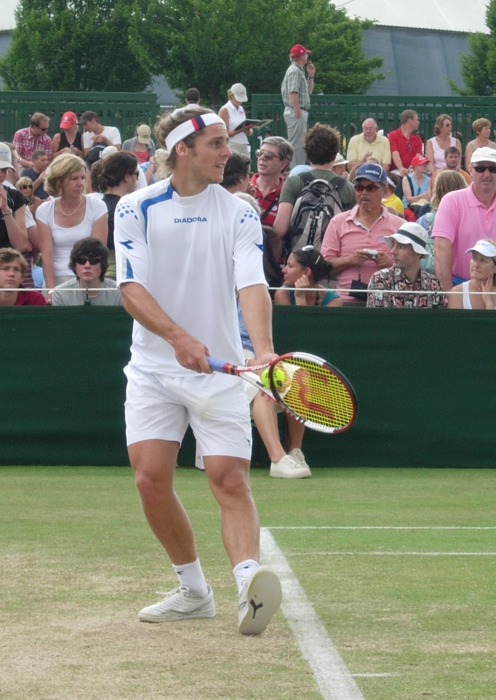 2006 Wimbledon Championship : second round match against Irakli Labadze. Gaudio lost 4-6,2-6,3-6